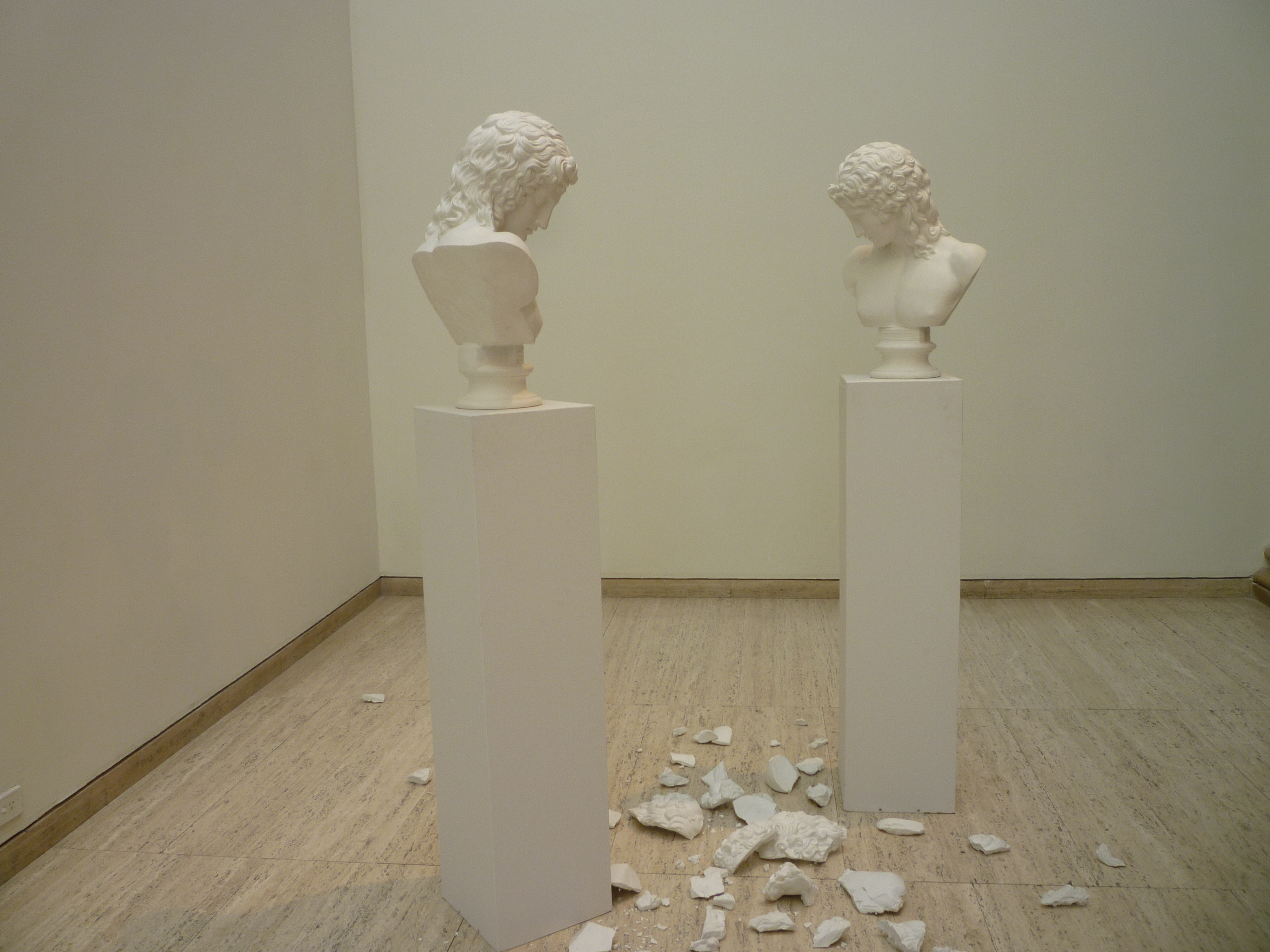 Sculpture by Giulio Paolini titled L'Altra Figura [The other figure], 1984